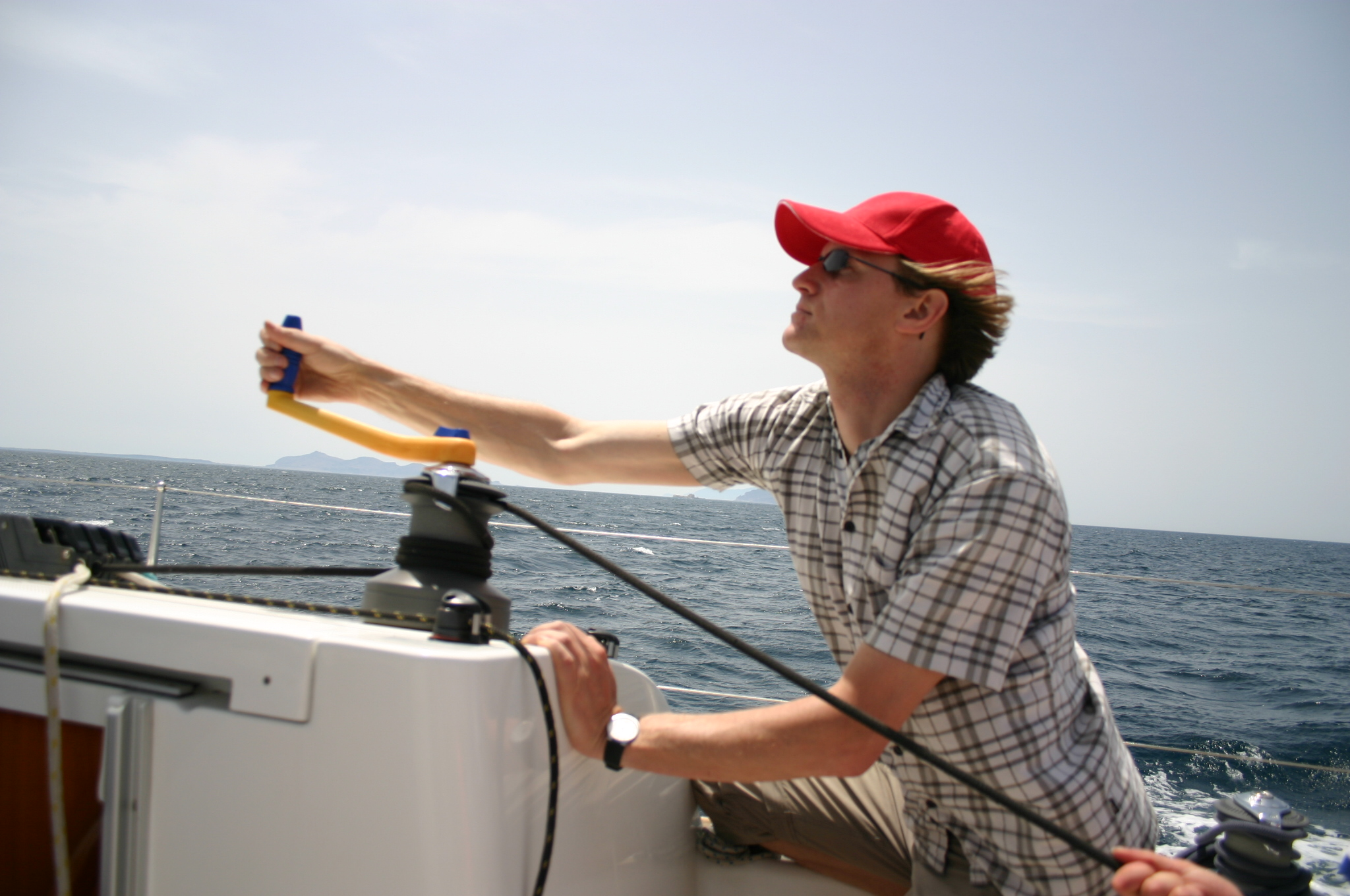 Karsten Brensing, Sizilien 2007